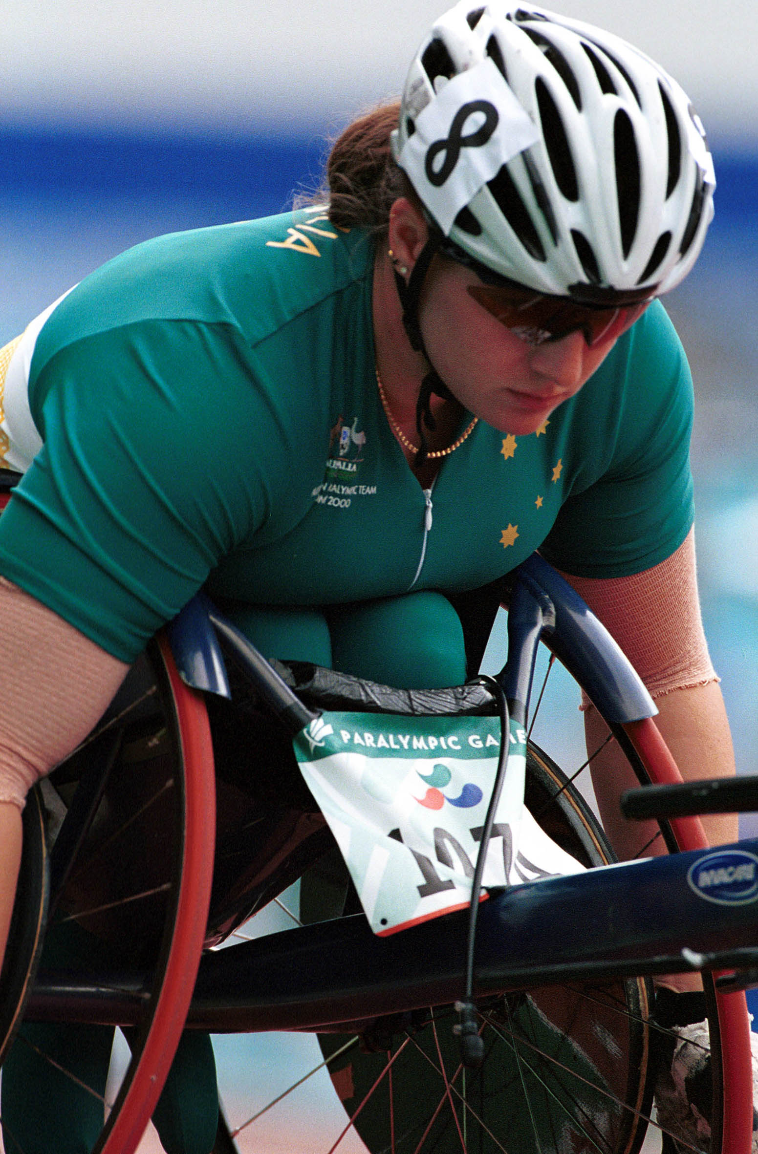 Australian wheelchair racing athlete Louise Sauvage waits pre race on Day 03 at the 2000 Sydney Paralympic Games